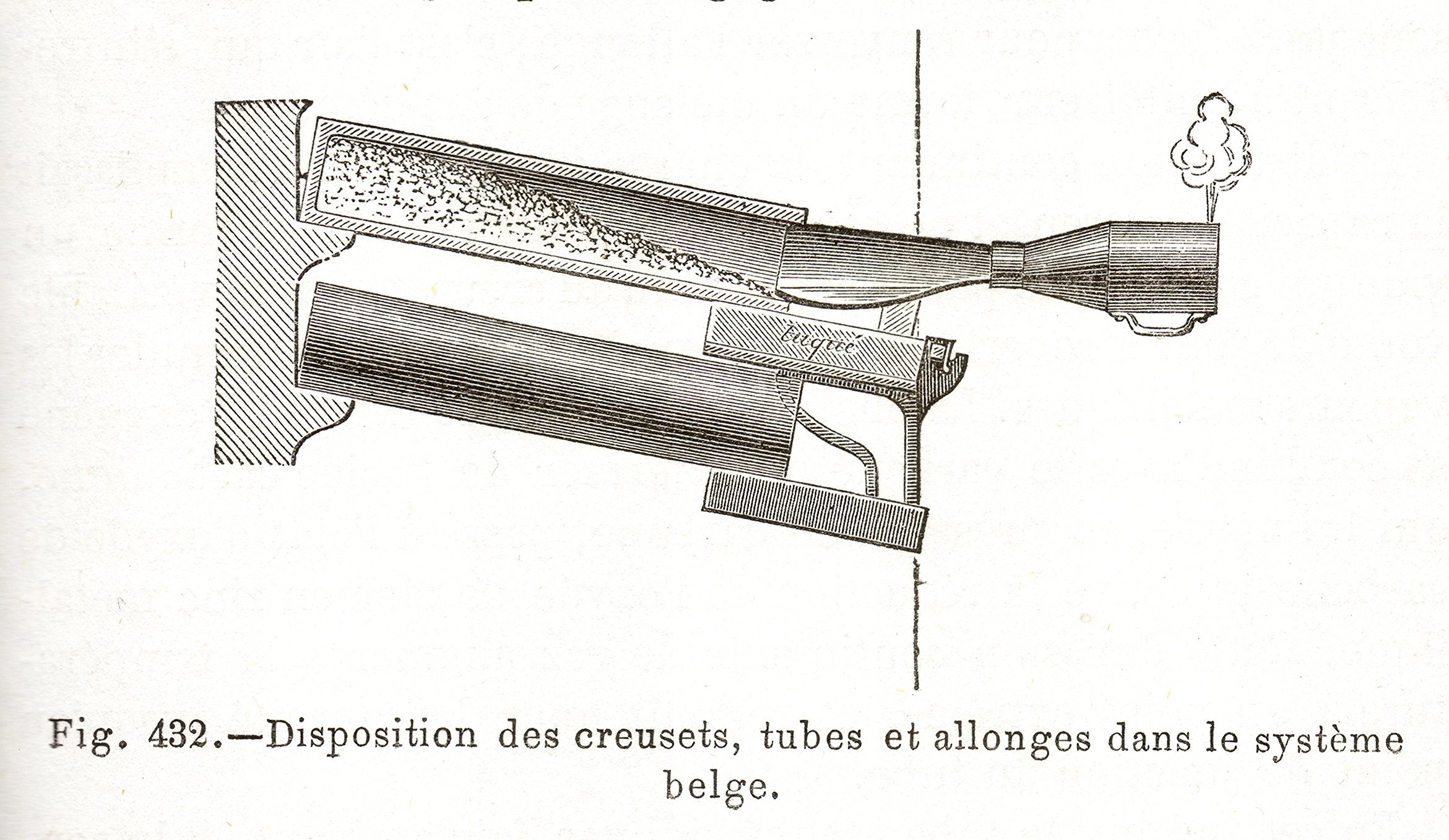 Belgium oven for the extraction of zinc, close up. Picture scanned in : Dictionnaire de chimie industriel (Dictionary of industrial chemistry) (Barreswil, A. Girard) 1864, tome 3, page 91.